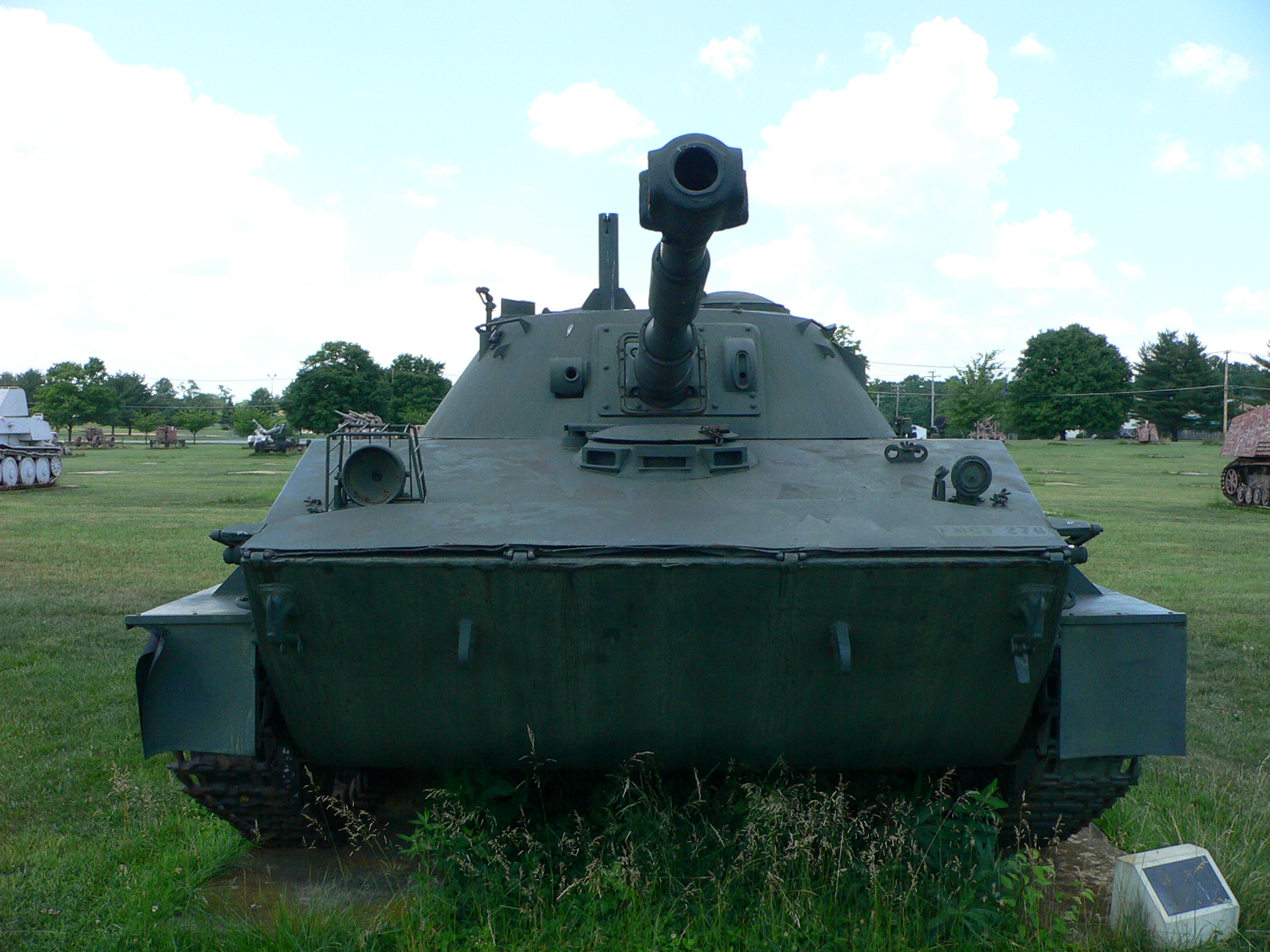 Picture taken by myself, Mark Pellegrini, at the United States Army Ordnance Museum (Aberdeen Proving Ground, MD) on June 12, 2007.